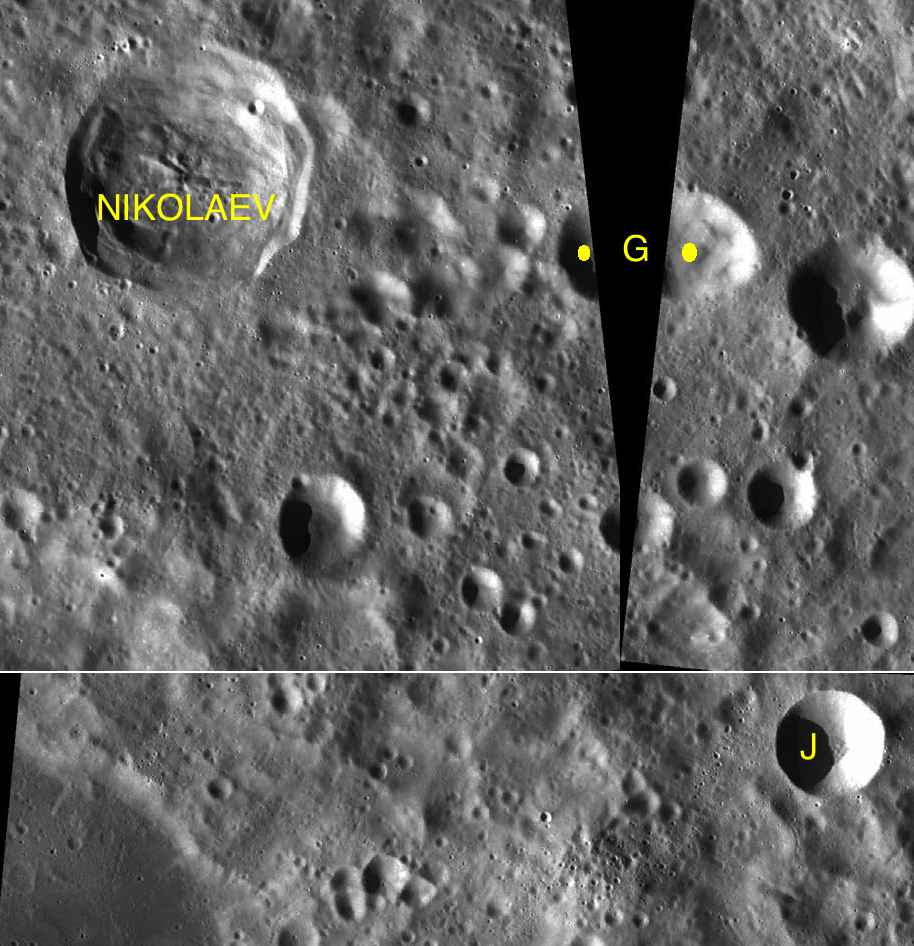 Parts of the charts LAC-31, LAC-32, LAC-49 used for the presentation